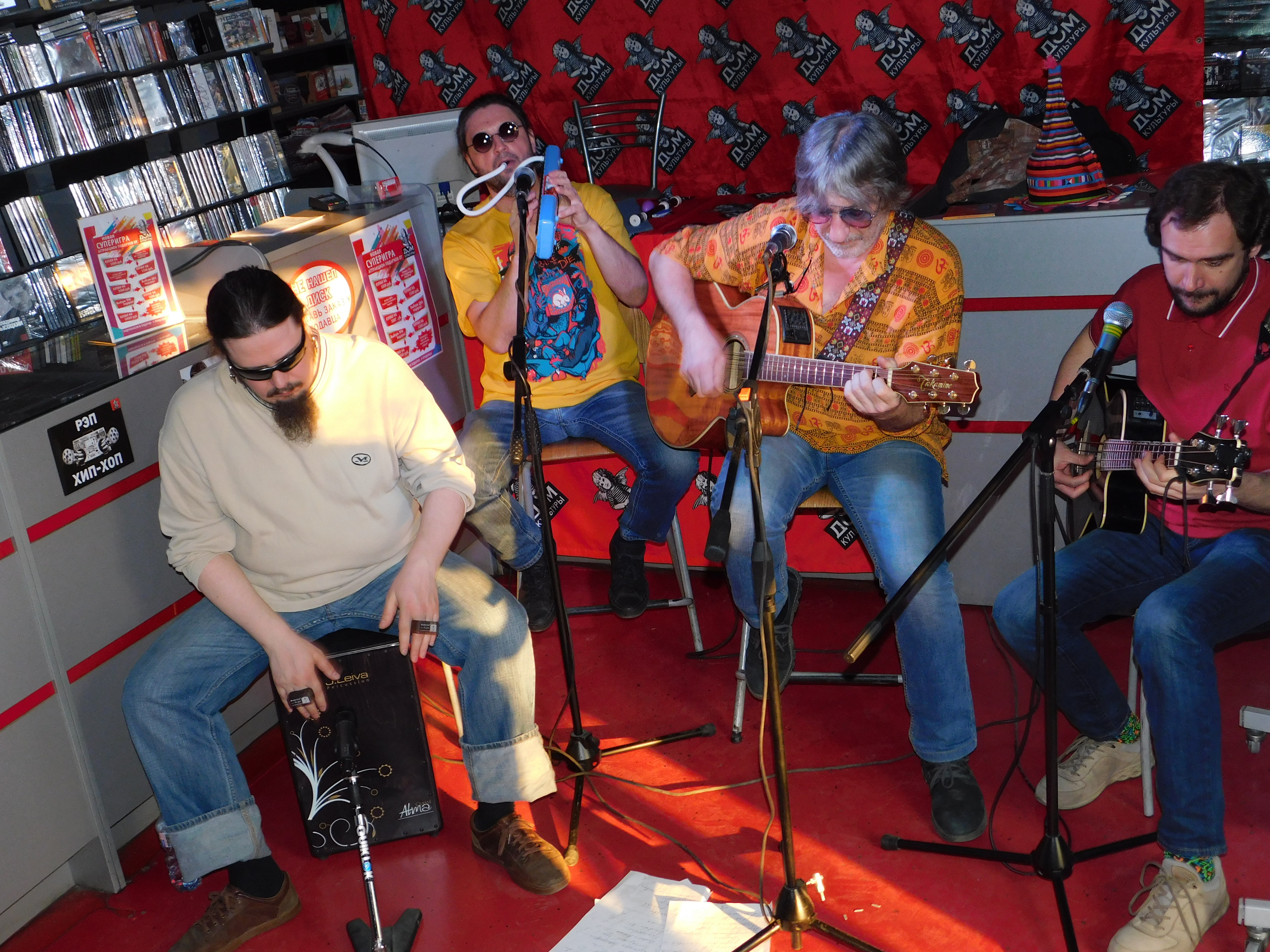 Oleg Chilap and Pchela Band in Dom Kultury (2019-04-21)